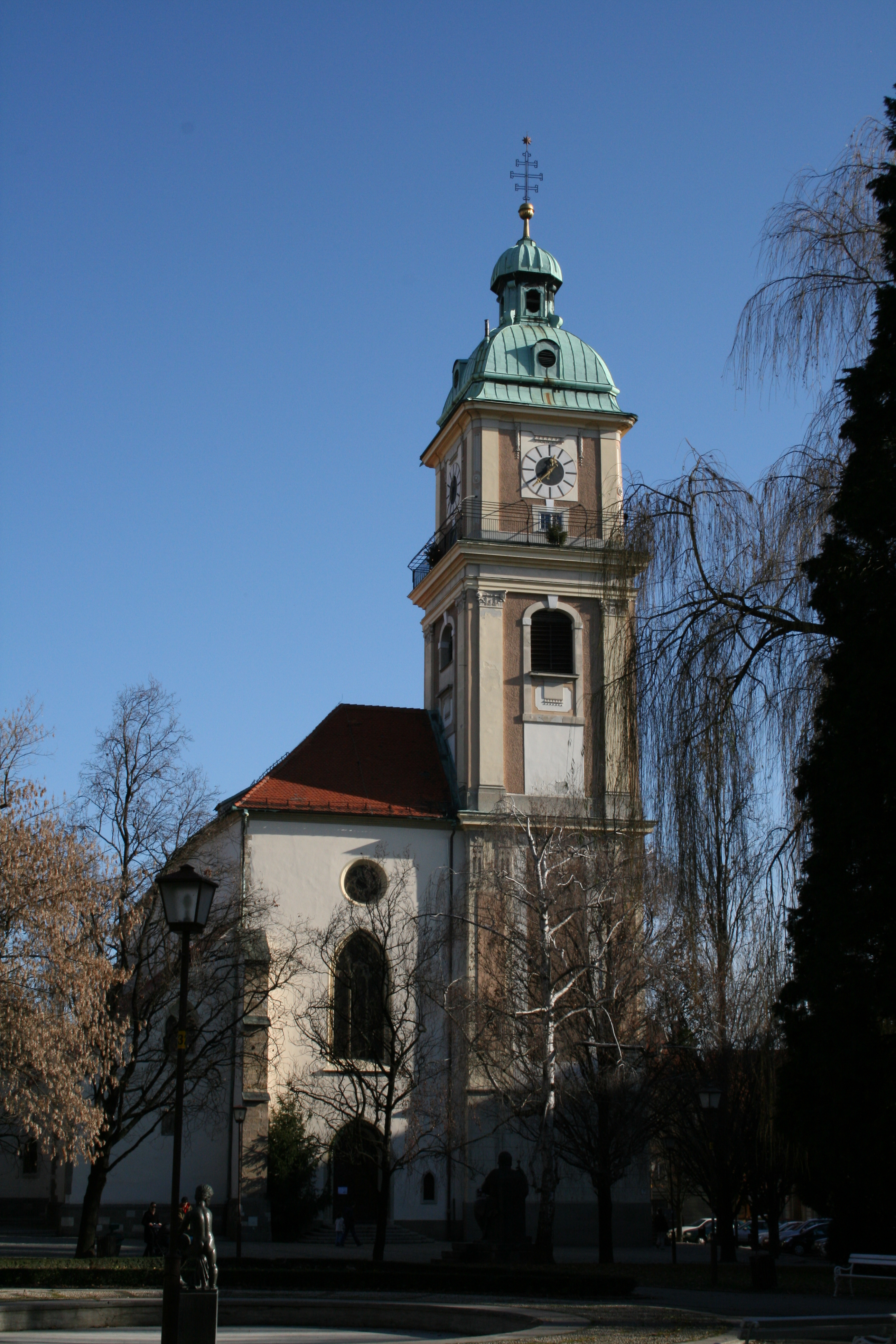 Maribor: Stolnica (deutsch: Dom; english: Cathedral)